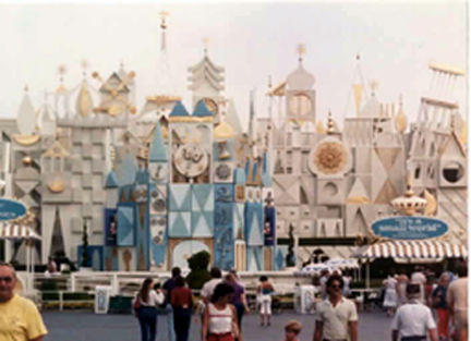 "it's a small world" in Fantasyland at Disneyland, Anaheim, California, U.S.A.